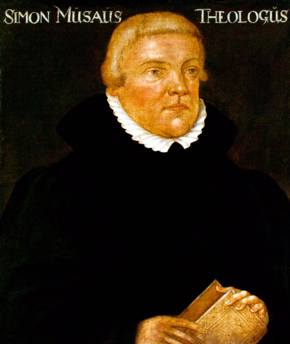 Simon Musaeus (1521-1576) German Protestant theologian